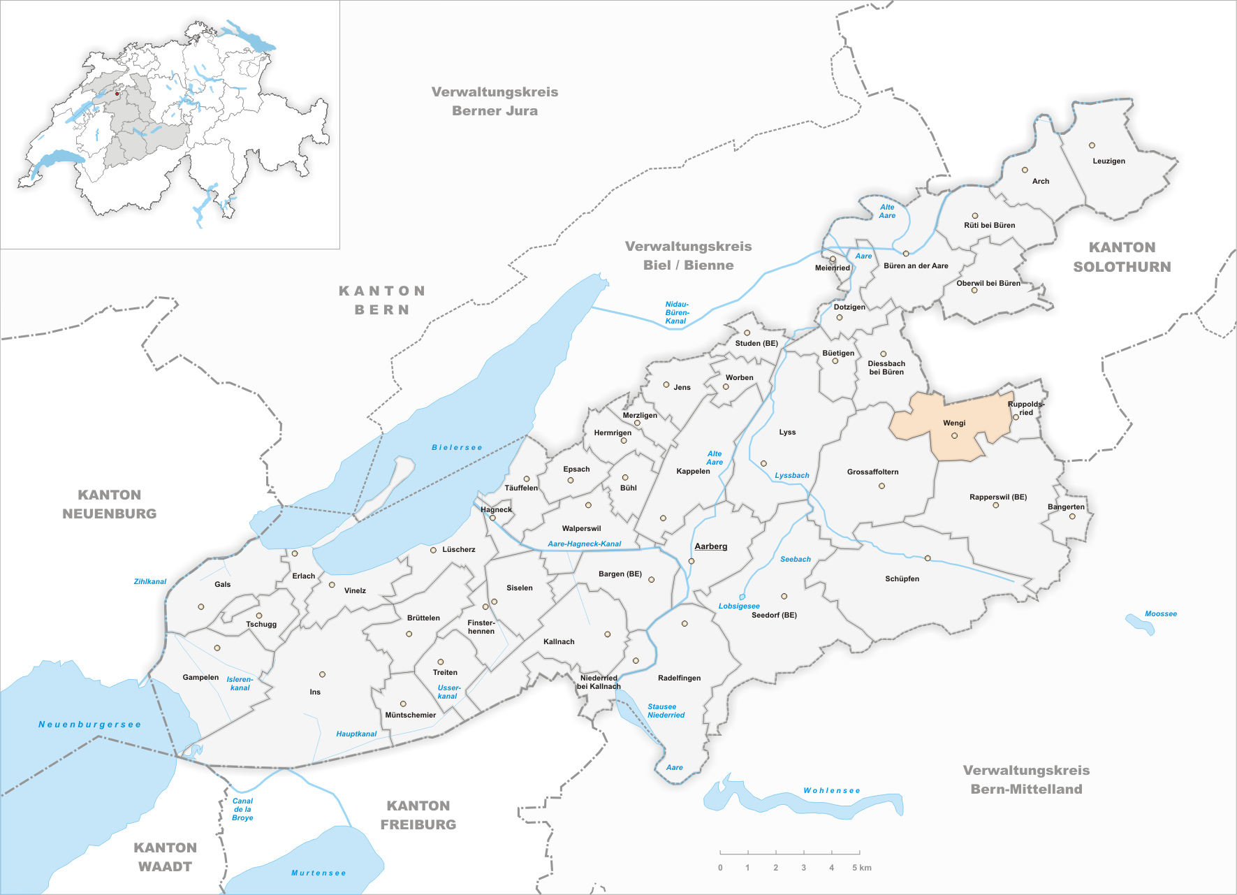 Municipality Wengi